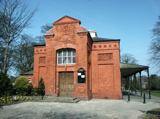 West Park Museum Entrance A view of the entrance to West park Museum.